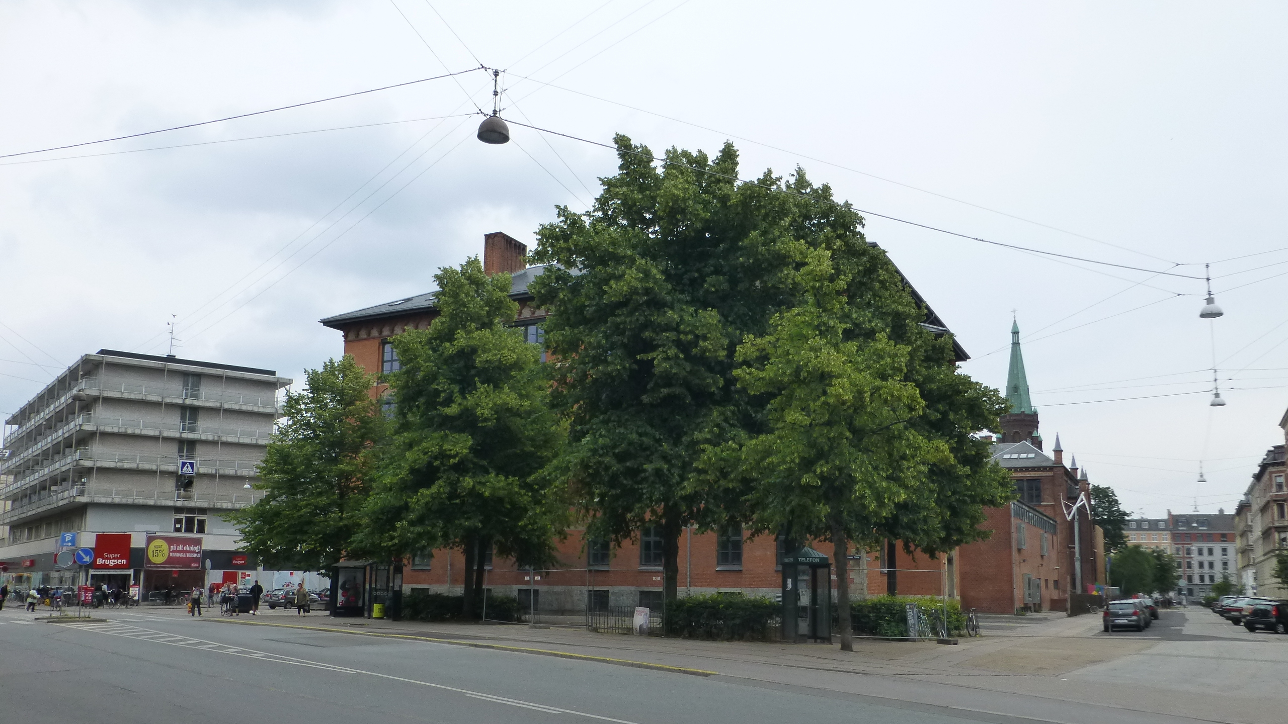 The square Tove Ditlevsens Plads in Vesterbro in Copenhagen.